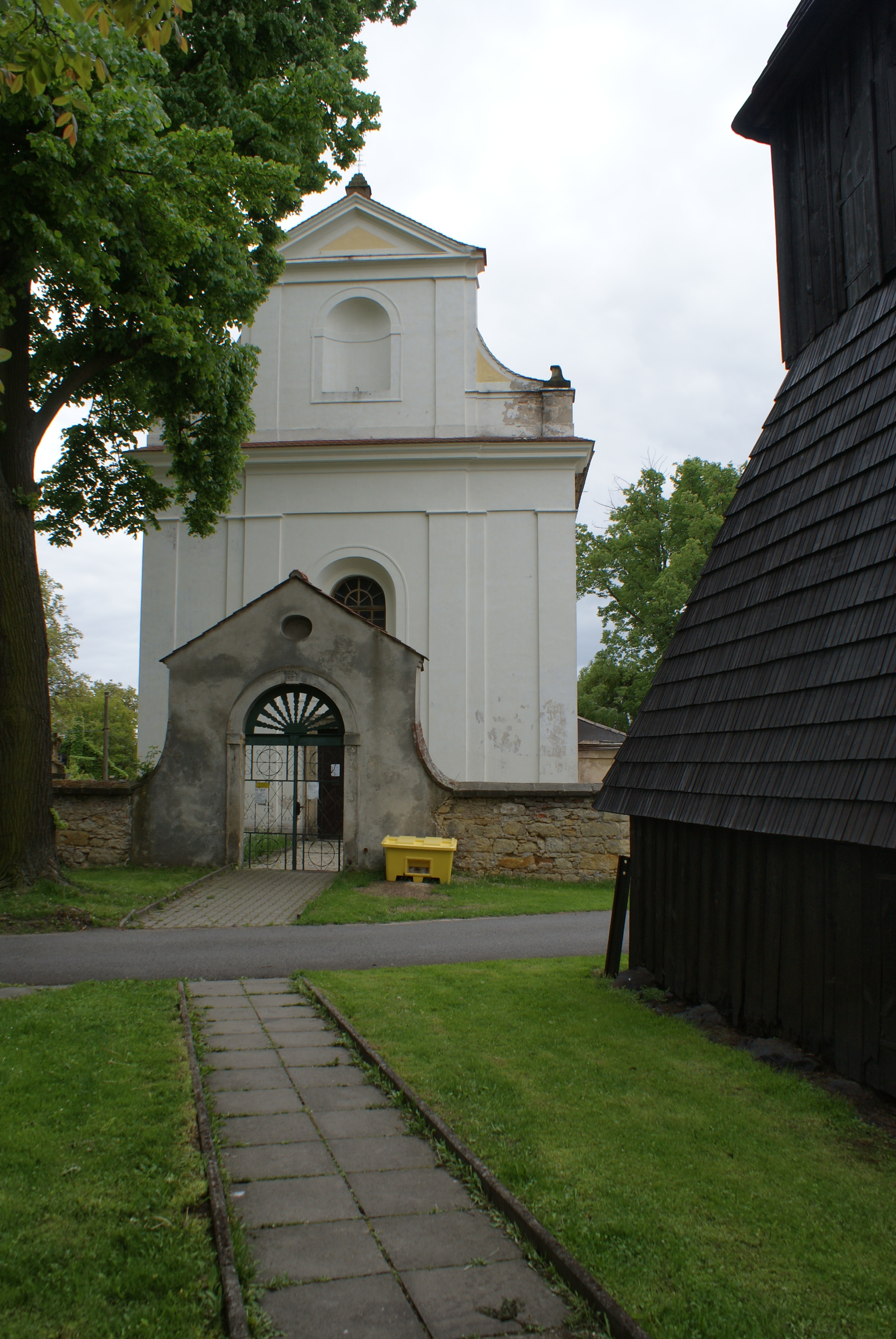 Sudoměř, Mladá Boleslav district, Czech Republic, Nativity of Mary church.